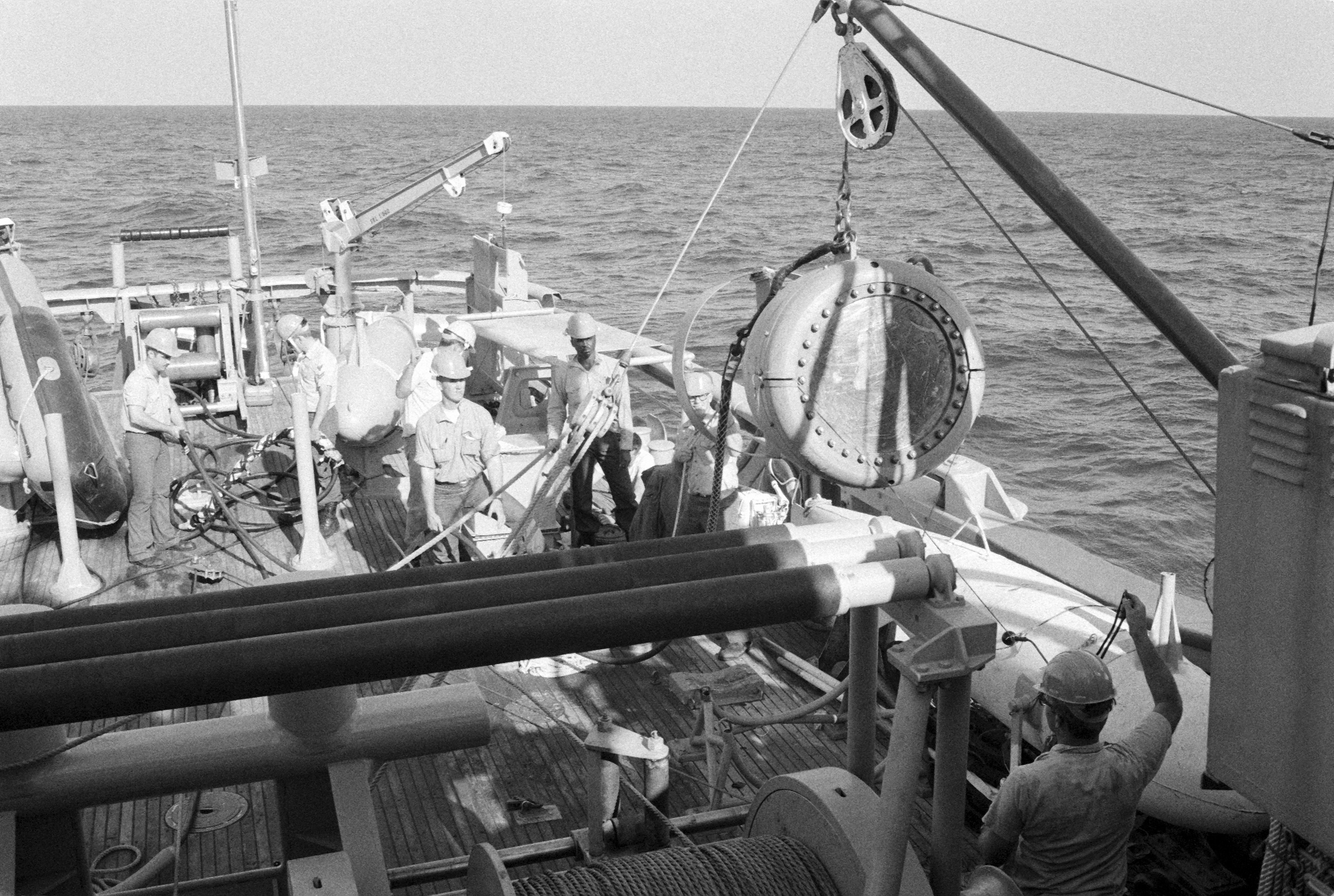 Crew members prepare to lower an acoustical device into the water from the ocean minesweeper USS ILLUSIVE (MSO 448) during a training exercise. The ILLUSIVE is one of three minesweepers being towed to the Persian Gulf to support US Navy escort operations.